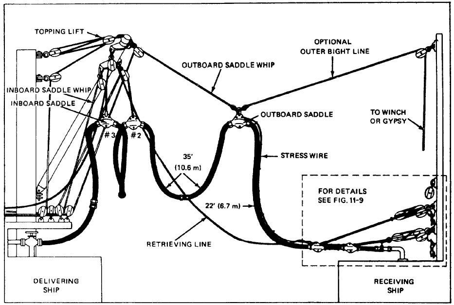 Illustration of close-in fuelling rig from US Navy Seaman training manual